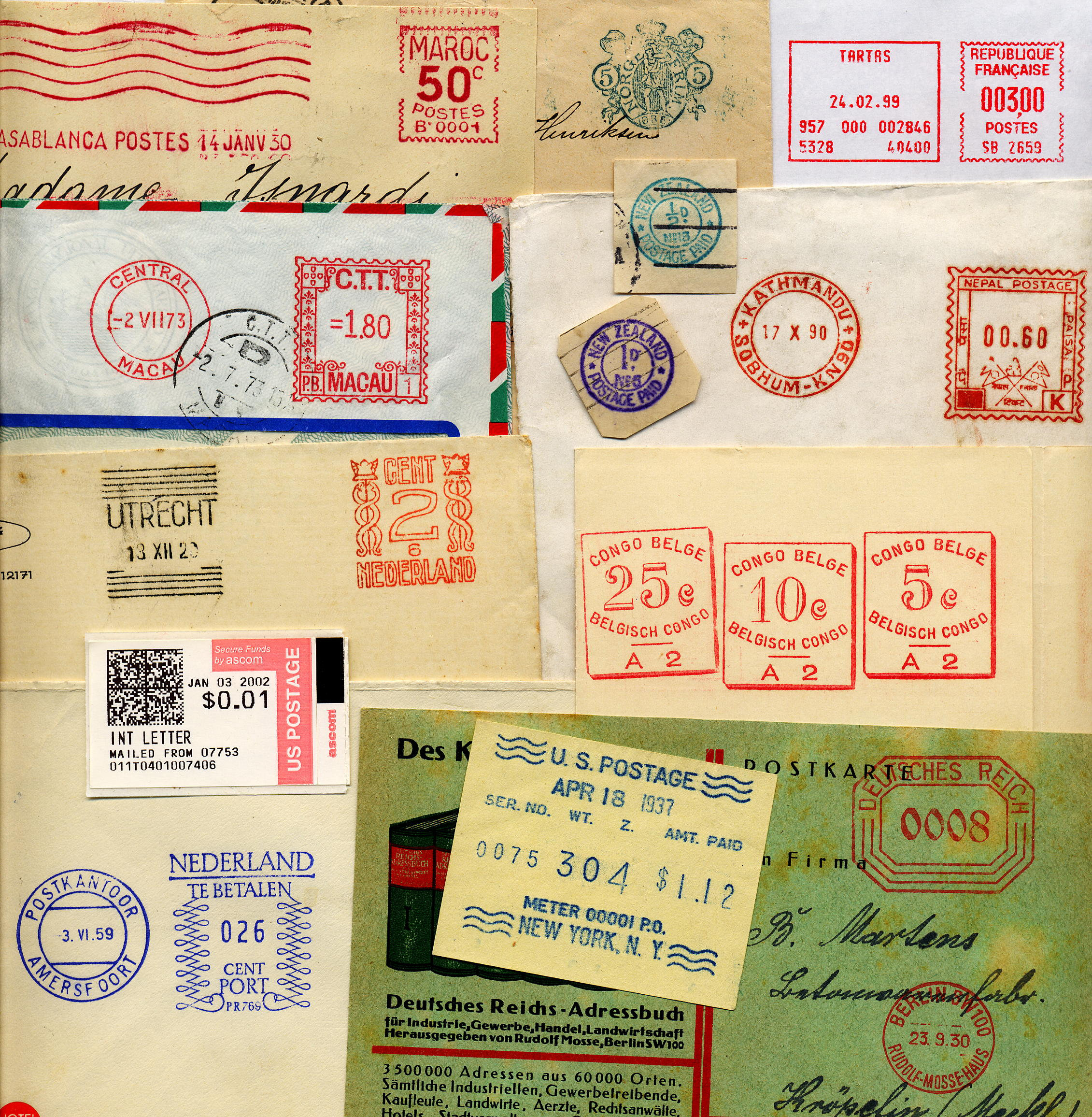 Meter stamp catalog image, montage for catalog 'Welcome' page